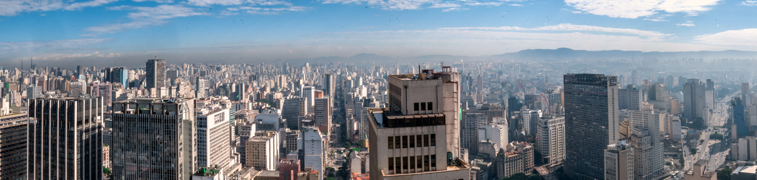 Panoramic view of Sao Paulo